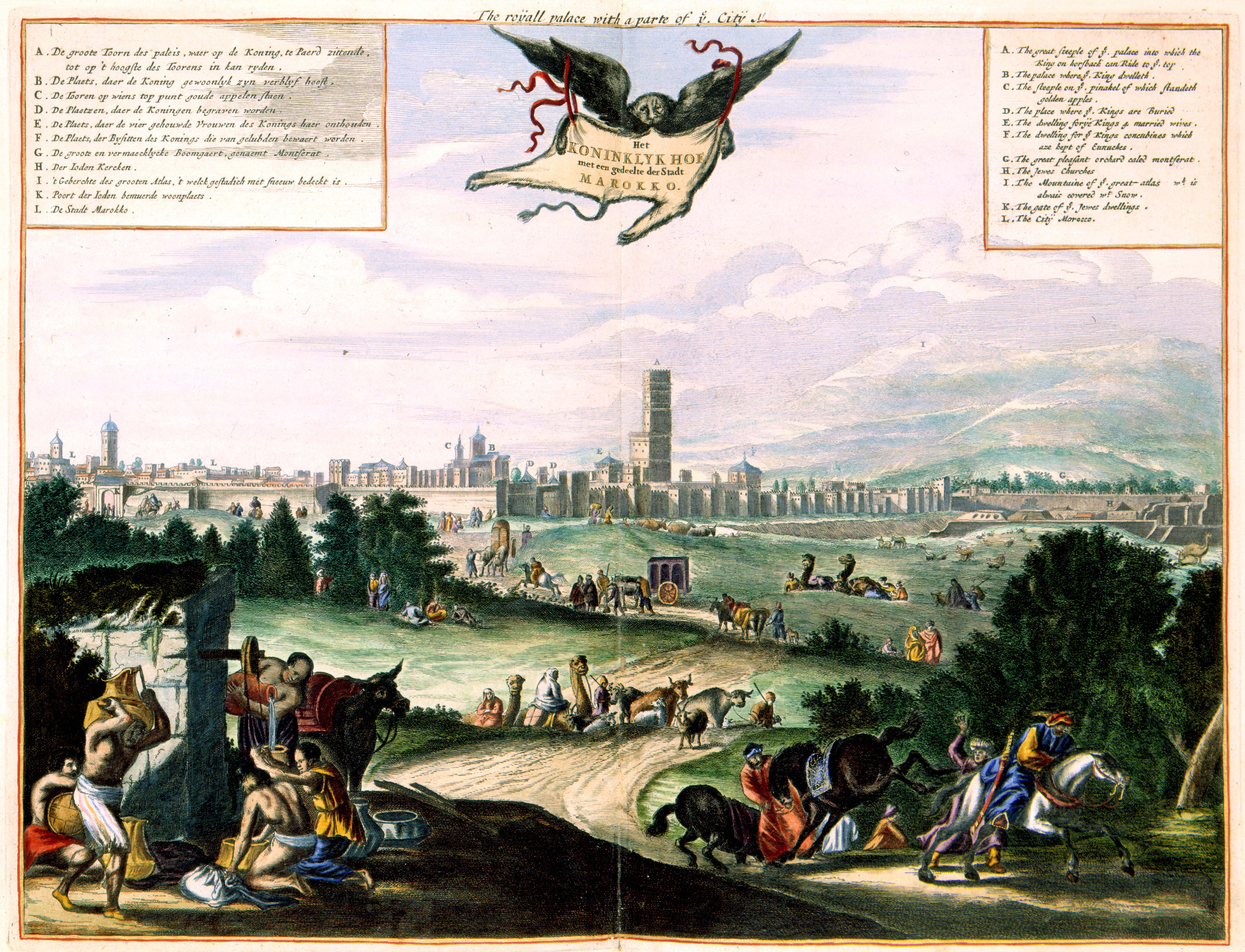 This unsigned view on the city of Rabat was probable published as book illustration in Amsterdam around 1700. Its engraver is unknown.